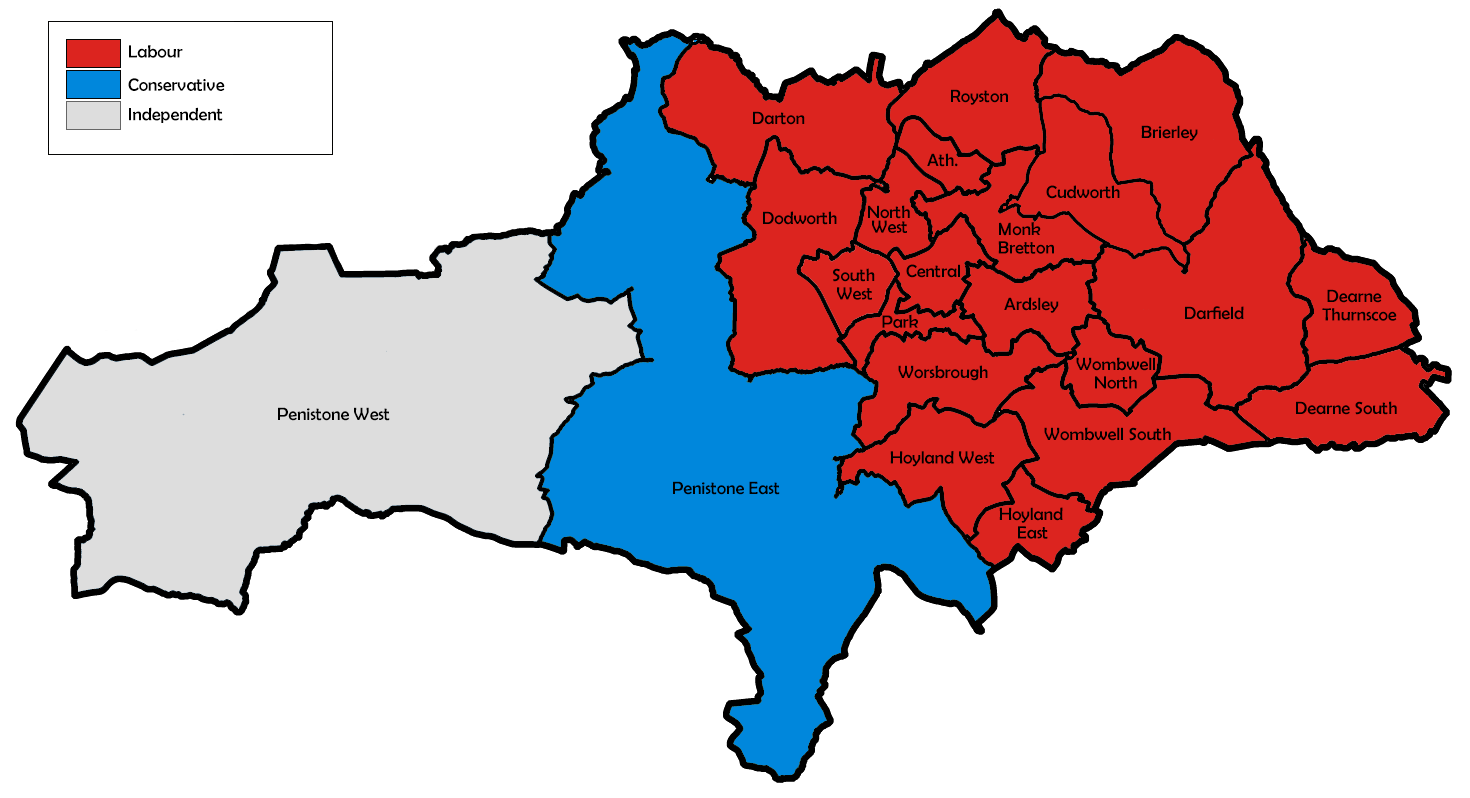 Ward map of Barnsley council with political colouring for the 1991 election.